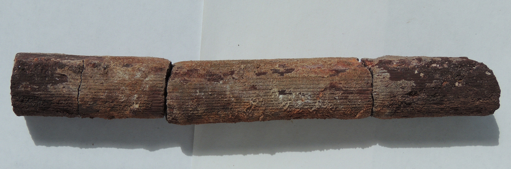 Сalamites. Lower Carboniferous, northwest of the Leningrad Region. The inner core (cast). Size 22x180 mm.